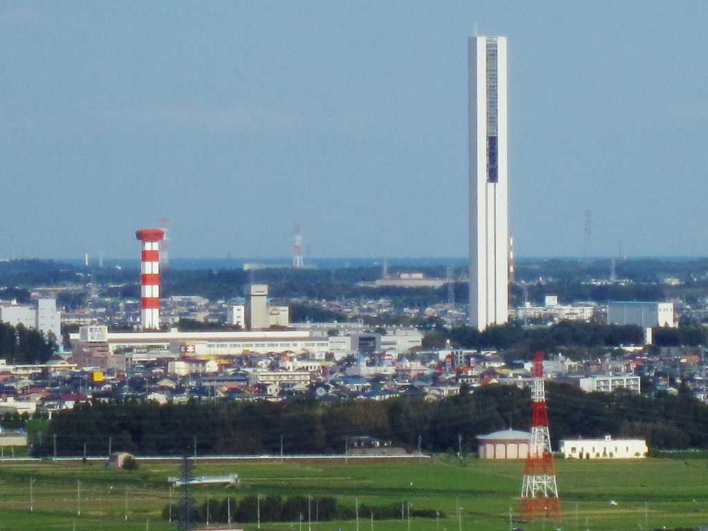 G1TOWER.